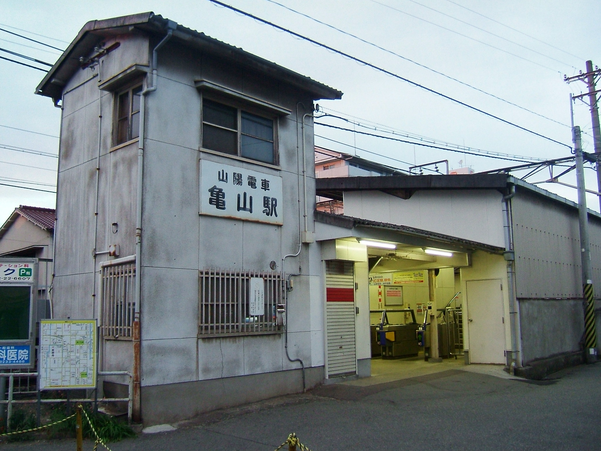 Sanyo Electric Railway Main Line Kameyama Station